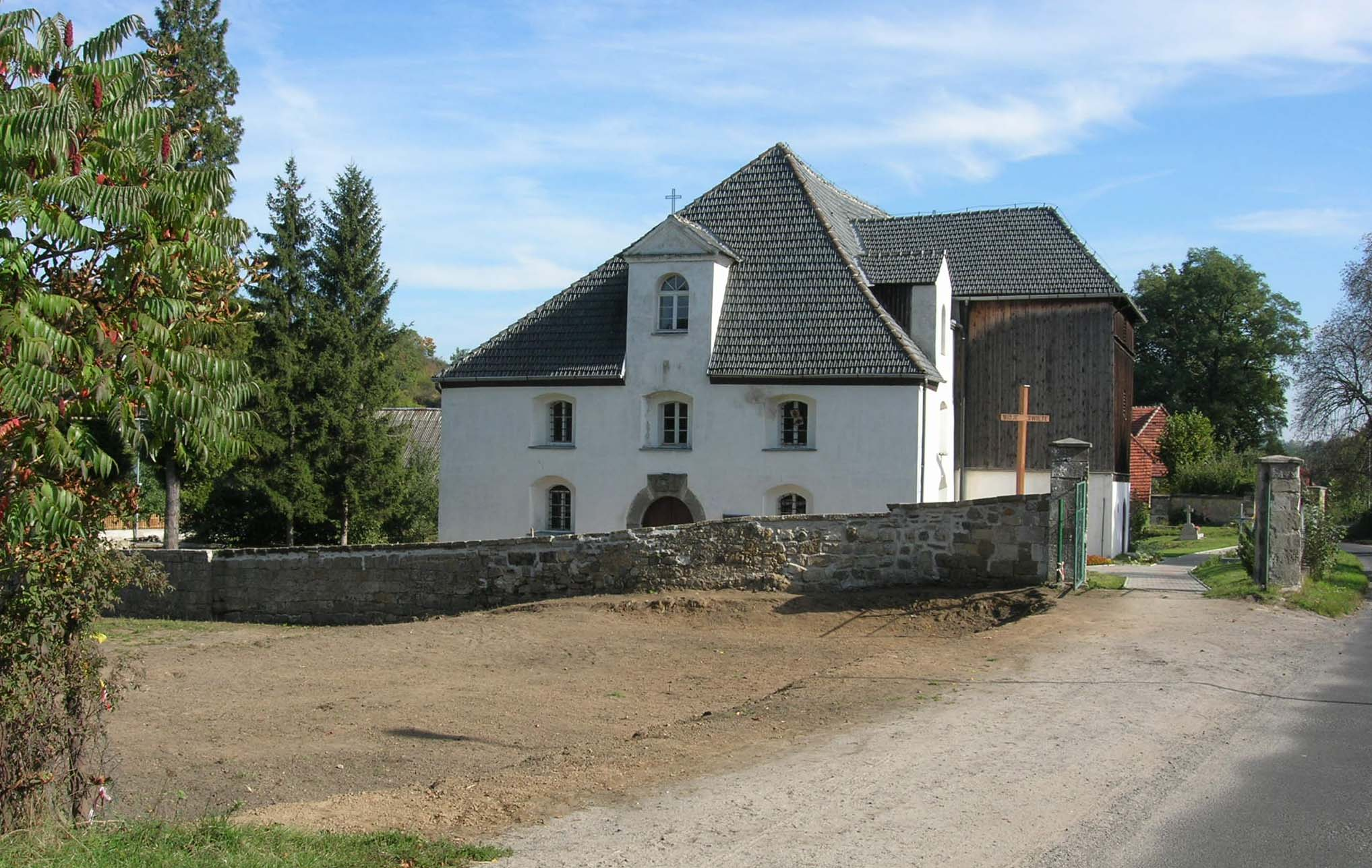 Saint Anthony of Padua church in Jerzmanice-Zdrój, west side view